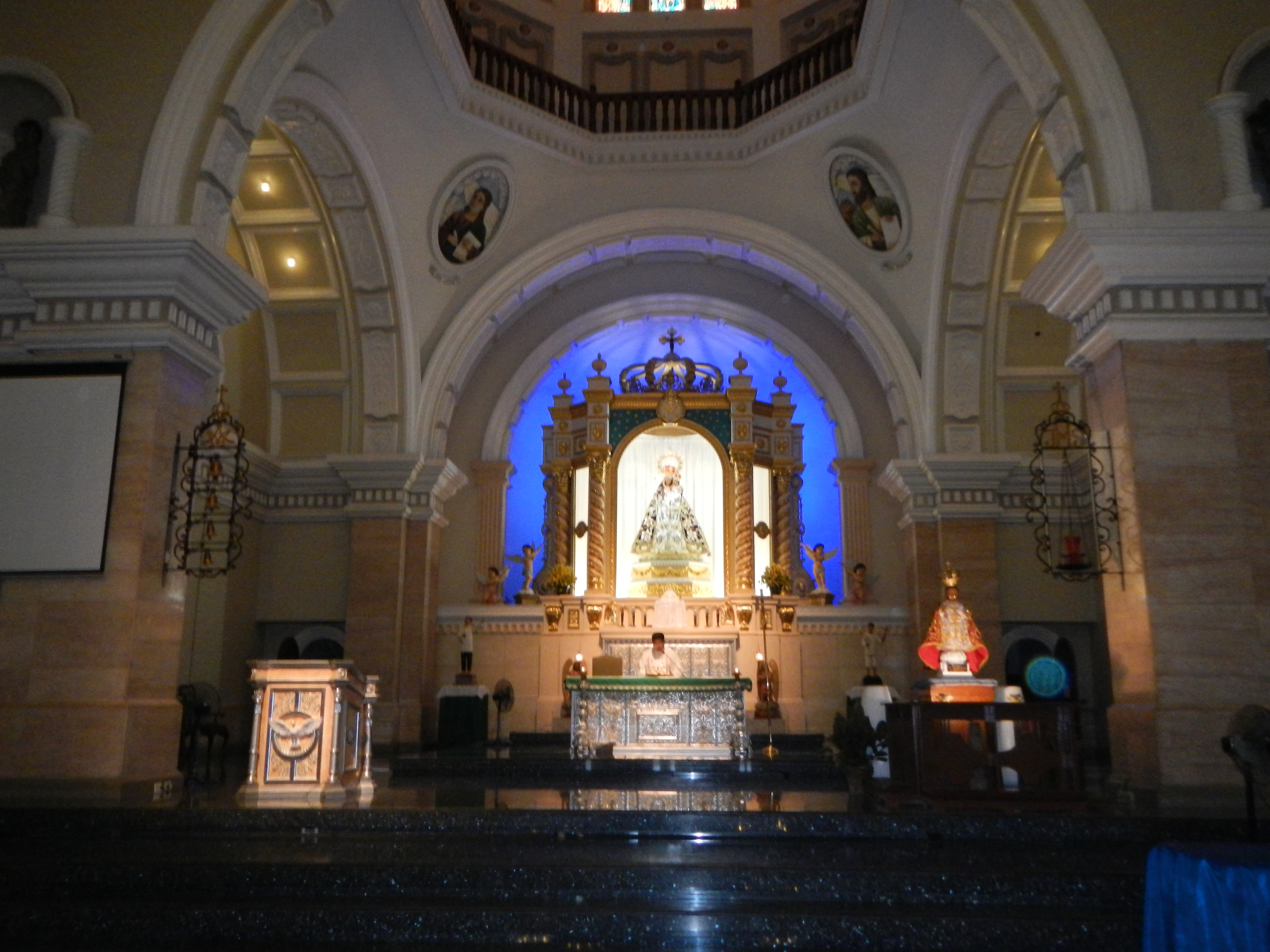 Orani Church - Our Lady of the Most Holy Rosary Parish Church (Nuestra Señora del Rosario Parish Church / Orani Church / Church of Orani)[1]II. Vicariate of St. Dominic de Guzman, Roman Catholic Diocese of Balanga[2][3] [4][5]Diocese of Balanga(Dioecesis Balangensis) Suffragan of San Fernando, Pampanga Created: March 17, 1975. Canonically Erected: November 7, 1975. Comprises the whole civil province of Bataan. Titular: St. Joseph, Husband of Mary, April 28. Bishop Most Reverend Ruperto Cruz Santos, DD[6][7] Parish Priest, Fr. Santos S. Detablan, assisted by Fr. Jesus R. Navoa, Catholic population, 33, 957[8] Church of Orani - Orani became an independent missionary center in 1714. The church and convent of Orani, repaired in 1792 and 1836, were badly damaged by the earthquake of September 16, 1852. They were built and improved under the supervision of the Rev. Bartolome Alvarez del Manzano, O.P. in 1891. They were destroyed by fire on March 16, 1938 which razed about three fourths of Orani including the town hall, the Tercena, former Bataan High School and later Orani Elementary School building. The church was reconstructed in September 1938. [9] Bataan (Region III) House of Worship Status: Level II - With Marker Marker Date: 1939 Site Orani church façade,Orani, Bataan installed by Historical Research and Markers Committee[10]Coordinates: 14°48'2"N 120°32'8"E Orani, 2112 Bataan[11][12]